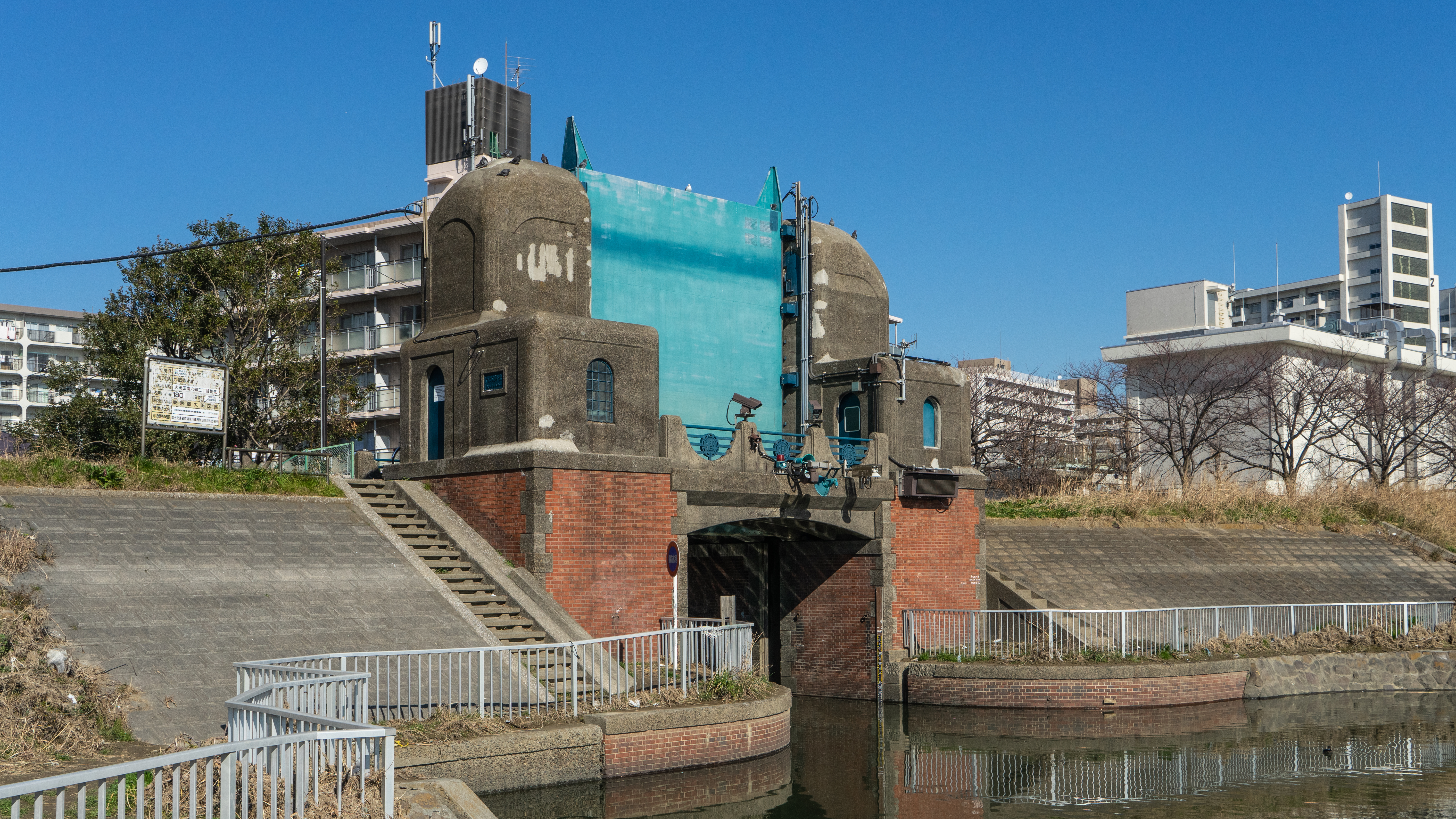 The Rokugo Sluice in Ota Ward, Tokyo, Japan